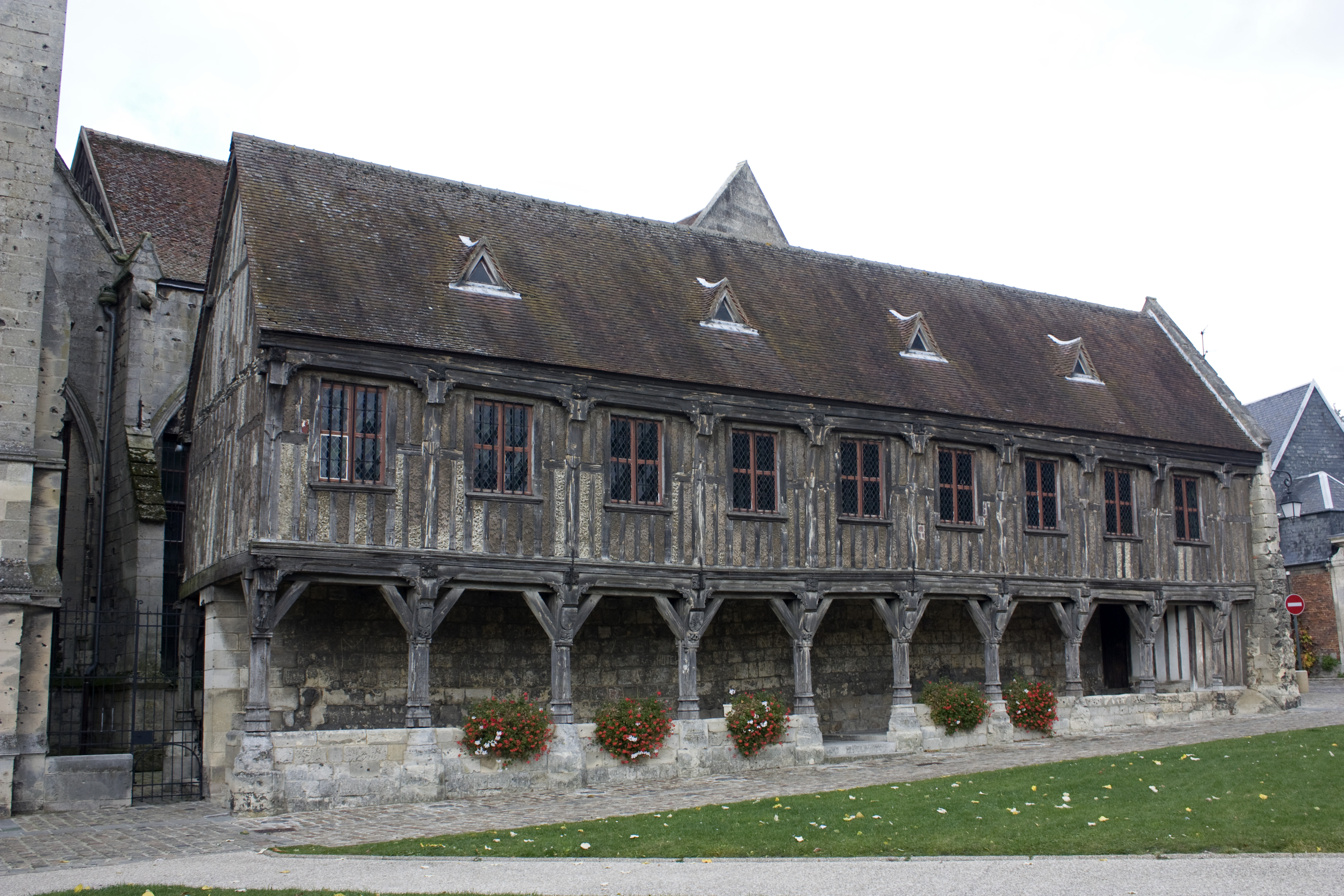 The library of the Chapter, built astride the boundary wall of the Officialdom housed the library room of the Canons.